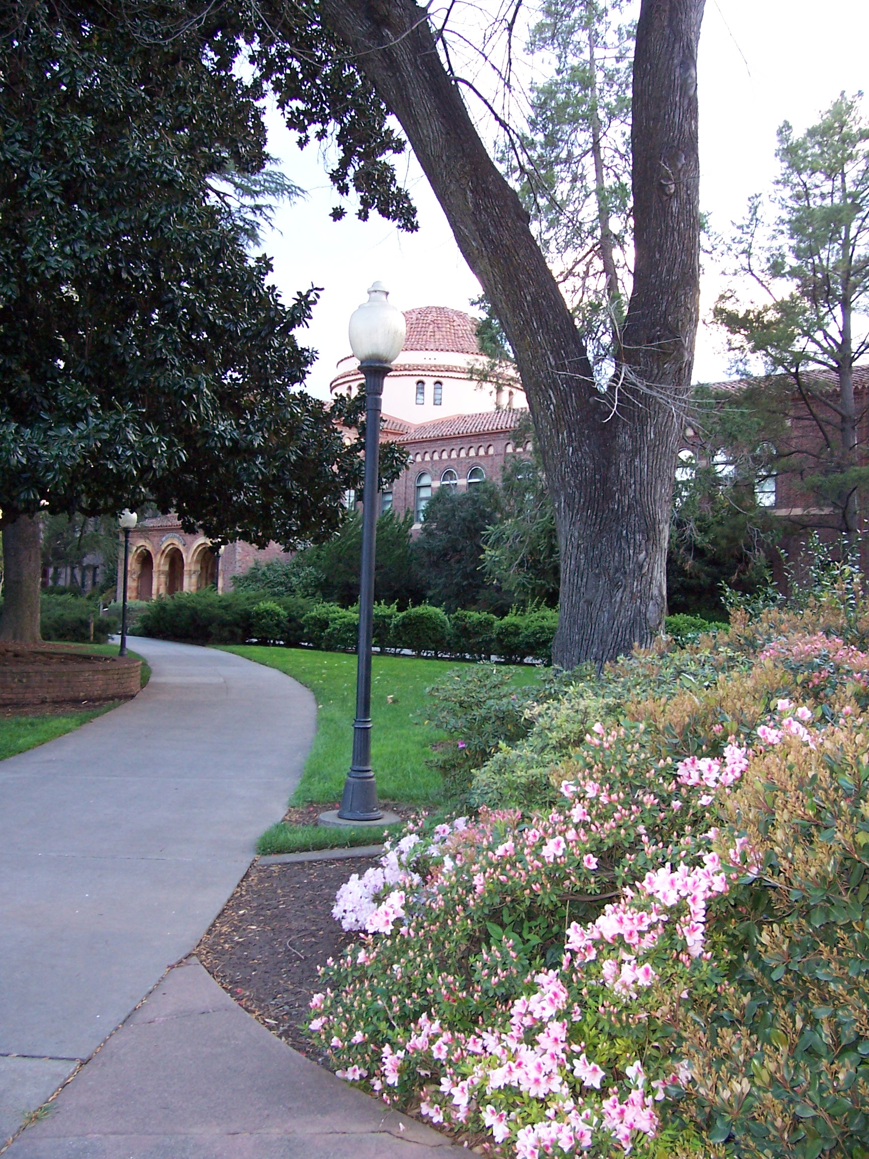 Chico State campus in the spring.